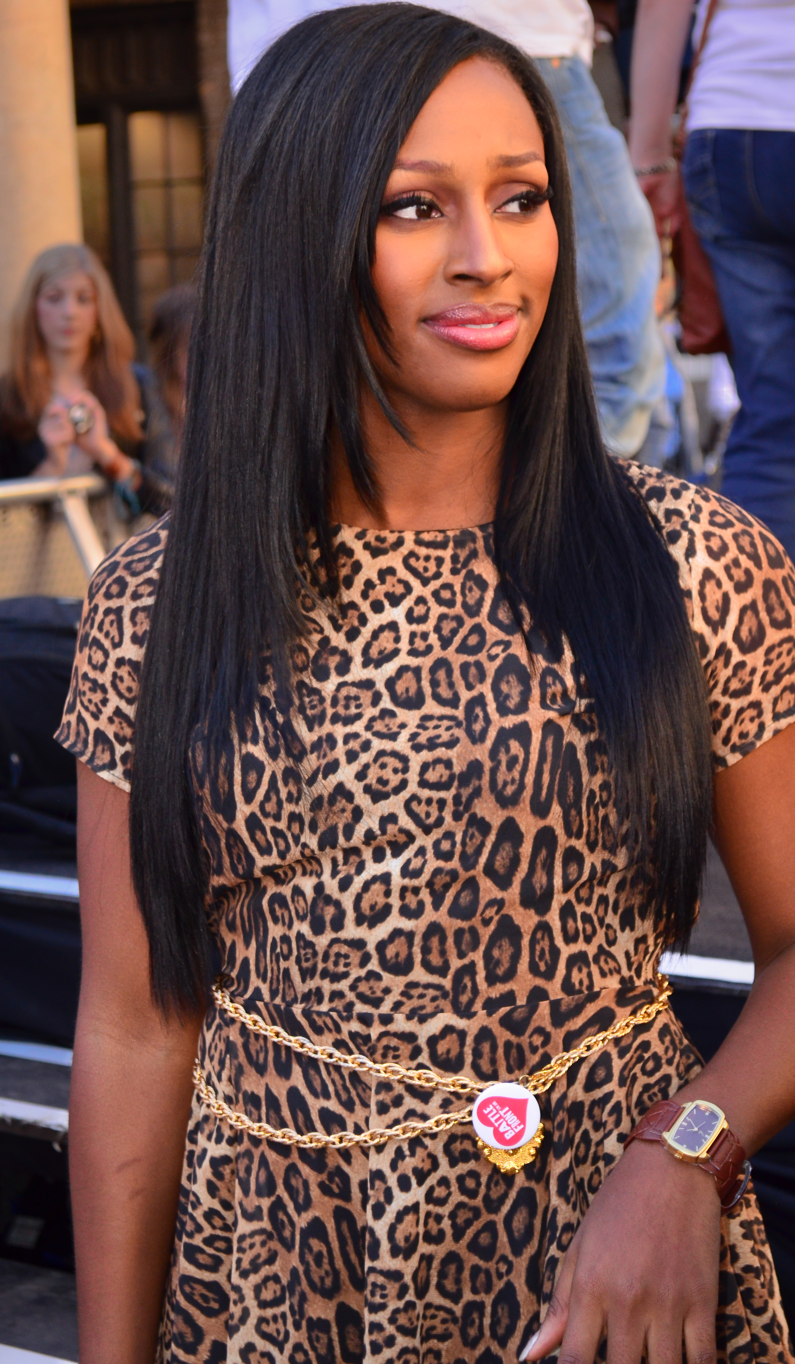 Alexandra Burke, British R&B and pop recording artist in October 15, 2011